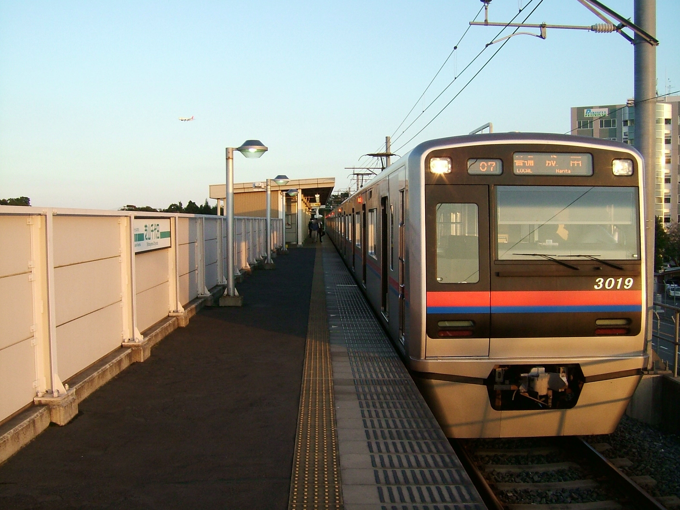 The platform of Shibayama-Chiyoda Station(Shibayama Railway Line)